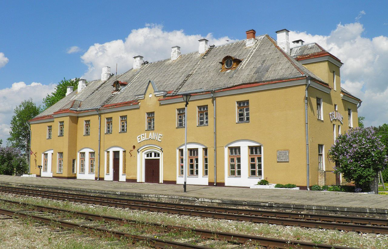 Eglaine railway station building